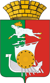 Tavda (Sverdlovsk oblast), coat of arms